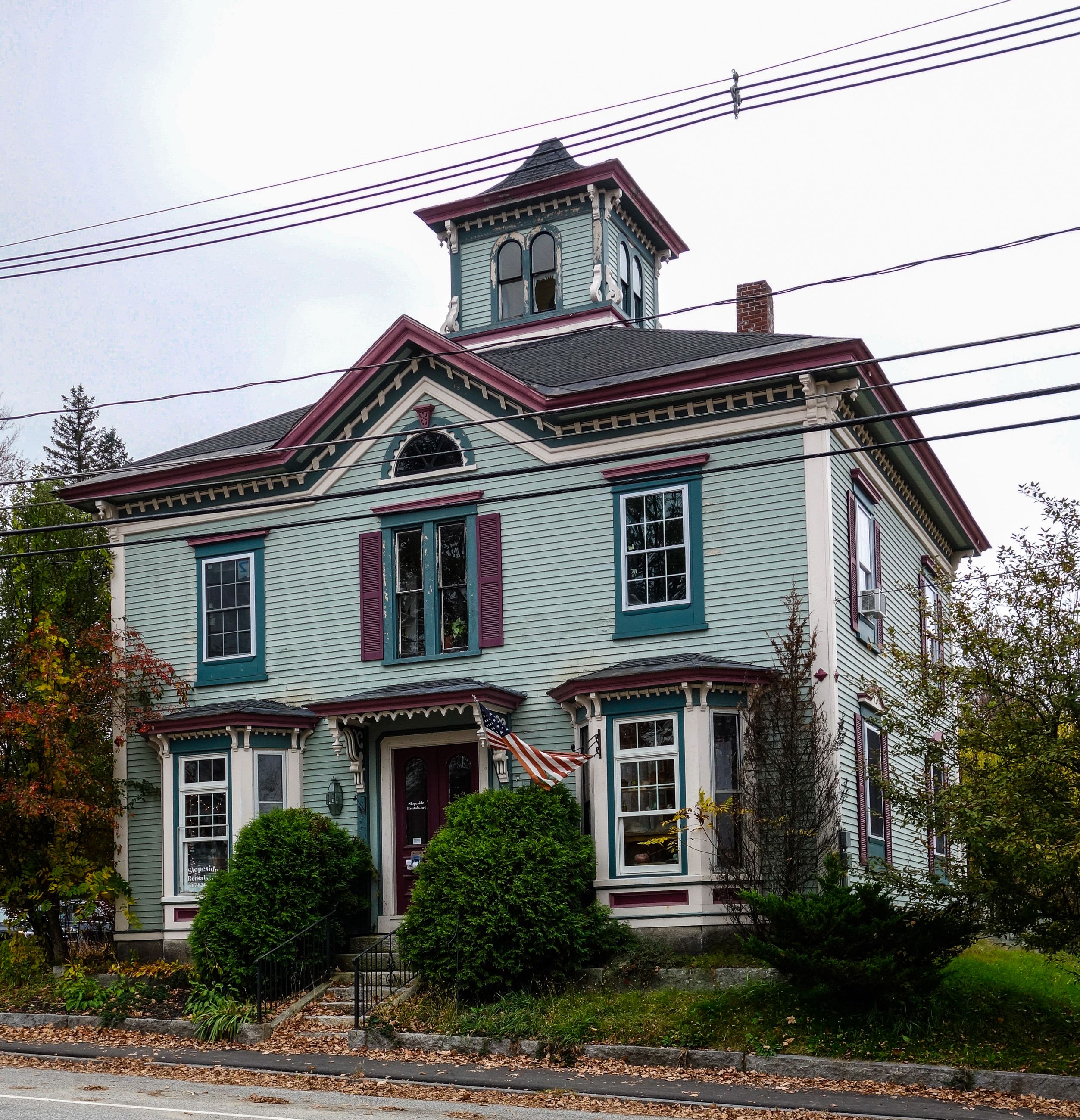 Samuel D. Philbrook House, now Philbrook Place. 162 Main Street, Bethel, Maine.